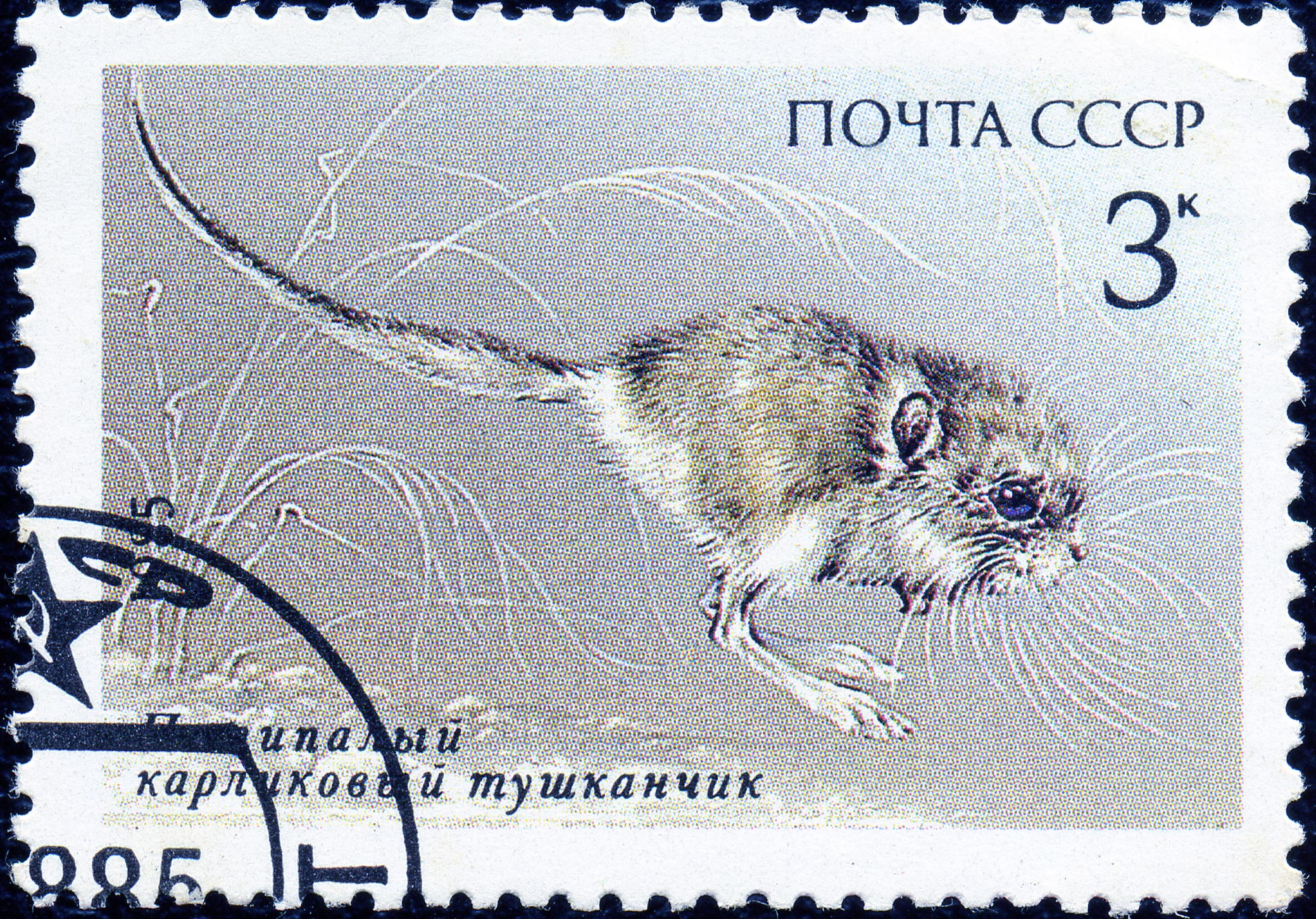 Cardiocranius paradoxus on a Soviet Union stamp of 1985